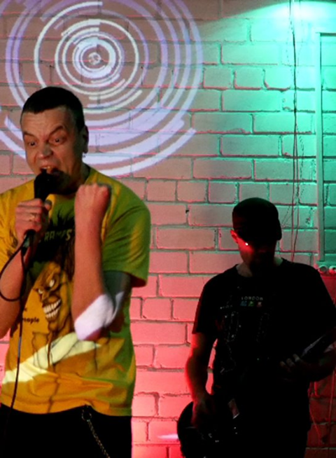 Mendeleev Oshibalsya band, online-festival Intercity 2.0